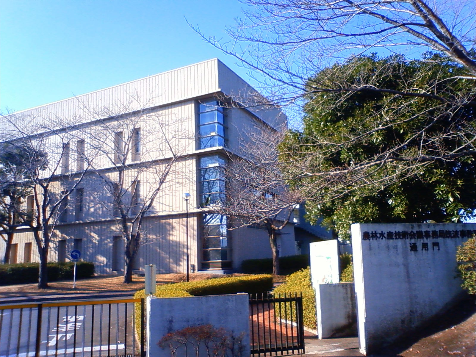 This is the building of Agriculture,Forestry and Fisheries Research Council(AFFRC) Tsukuba Office.